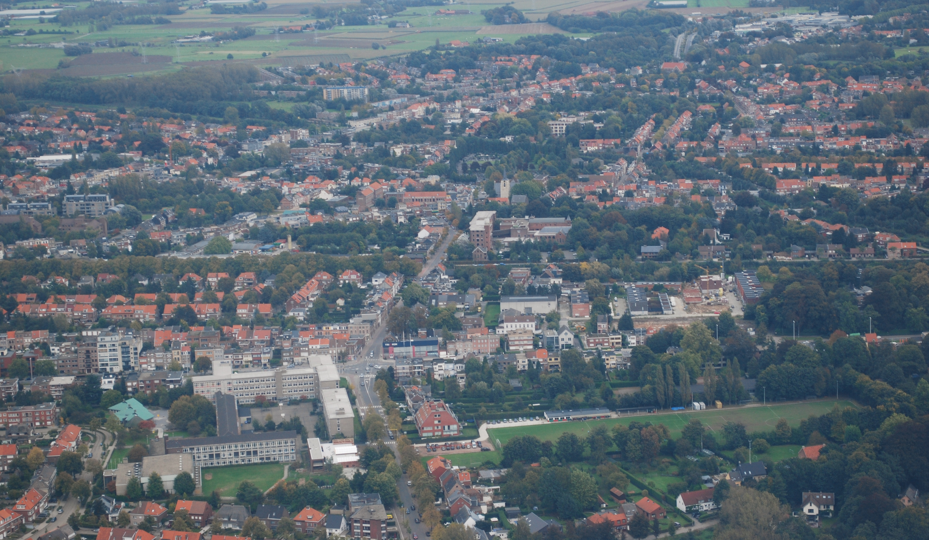 Aerial photograph from the West towards the centre of Mortsel. The near-horizontal line in the middle is the Antwerp-Brussels railroad. The red brick structure in front of the church is Saint Joseph's hospital. Nikon D60 f=48mm f/7.1 ISO 200 1/200s. Reframed and colour corrected using Adobe Photoshop 4.0.